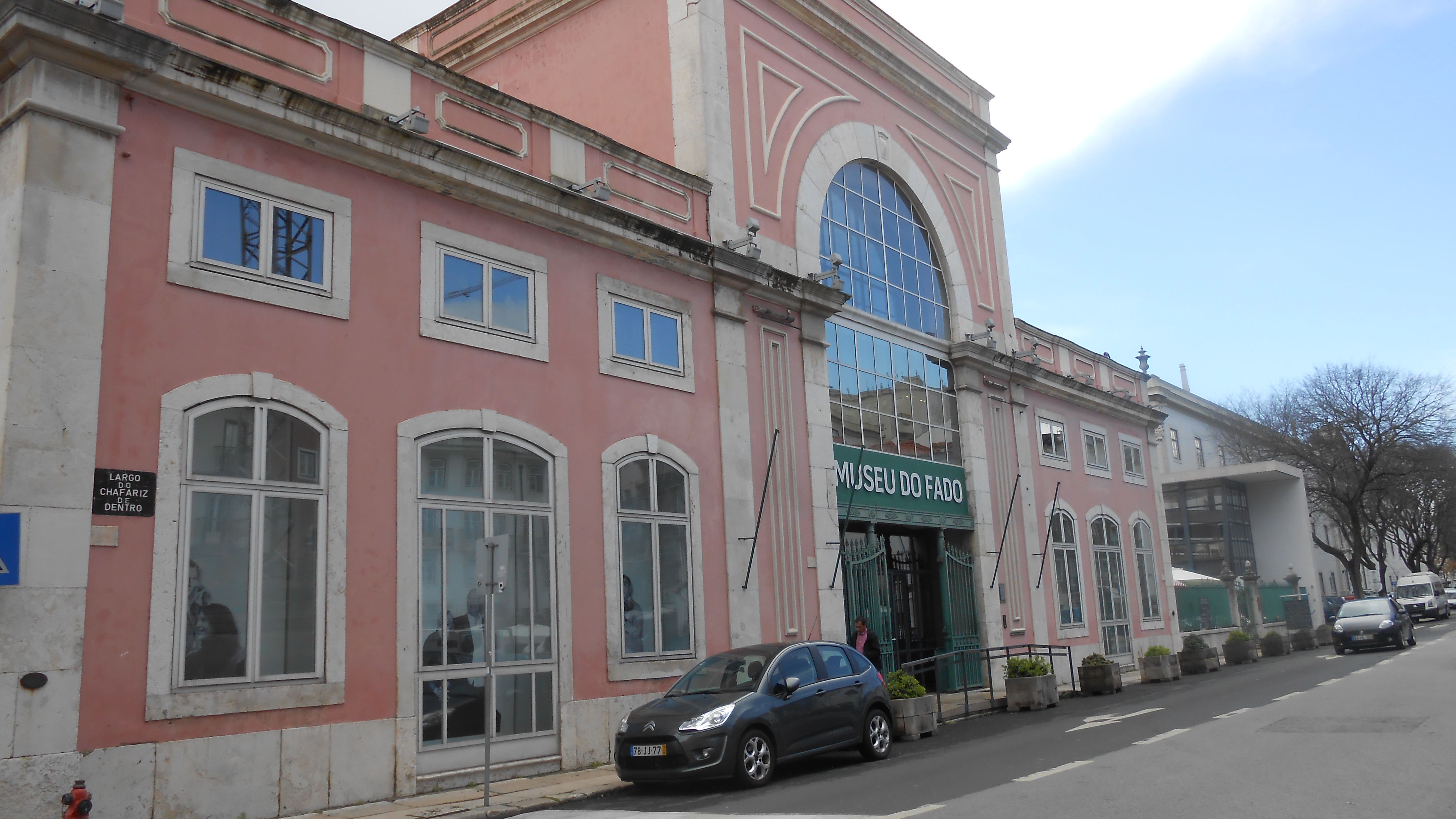 The Fado museum in Lisbon (march 2014).